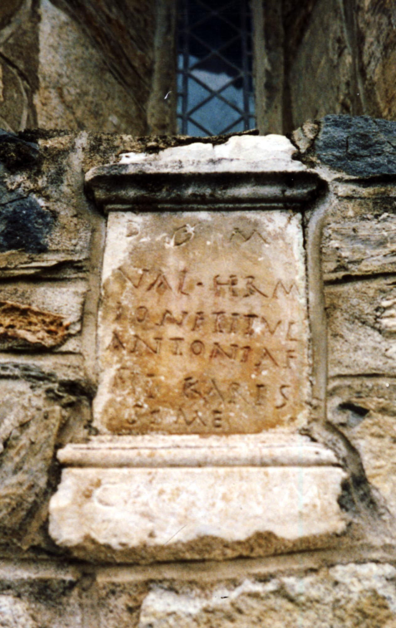 Galloroman funerary stele (Ist to IVth century) reemployed in a wall of the church of Saint-Aventin, Haute-Garonne, France.